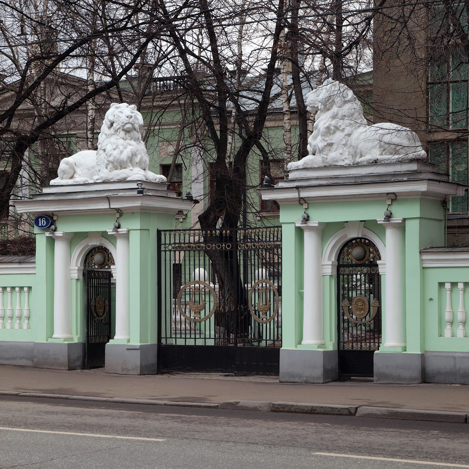 Prechistenka Street, Moscow.